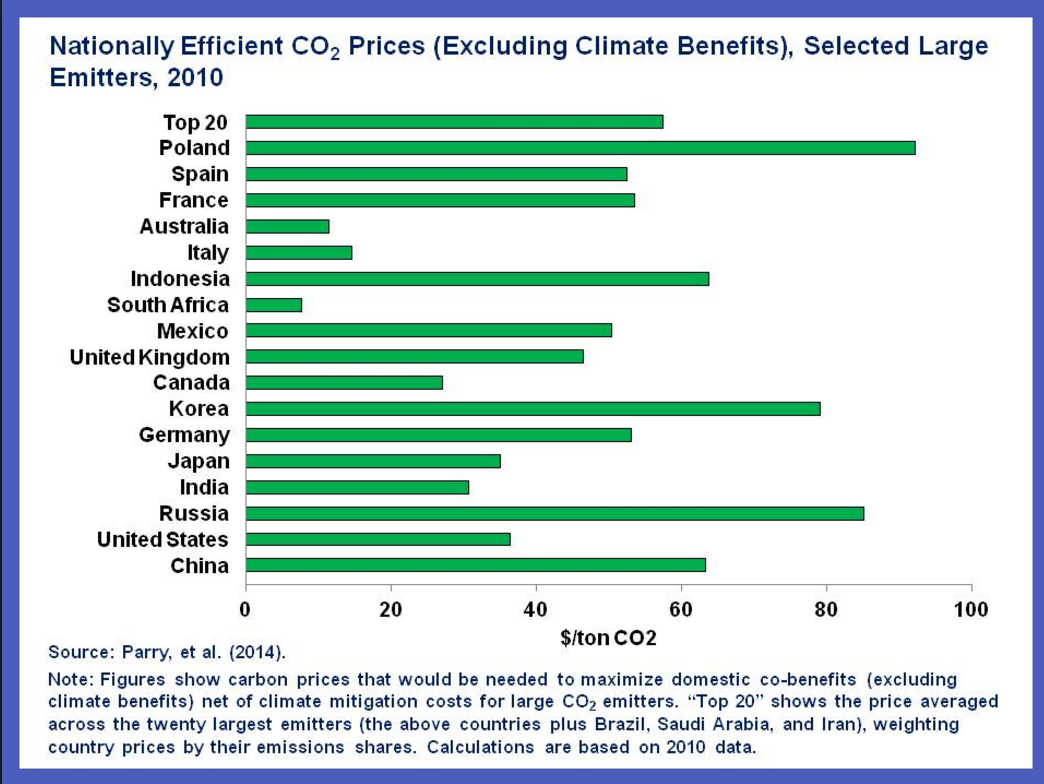 Carbon tax